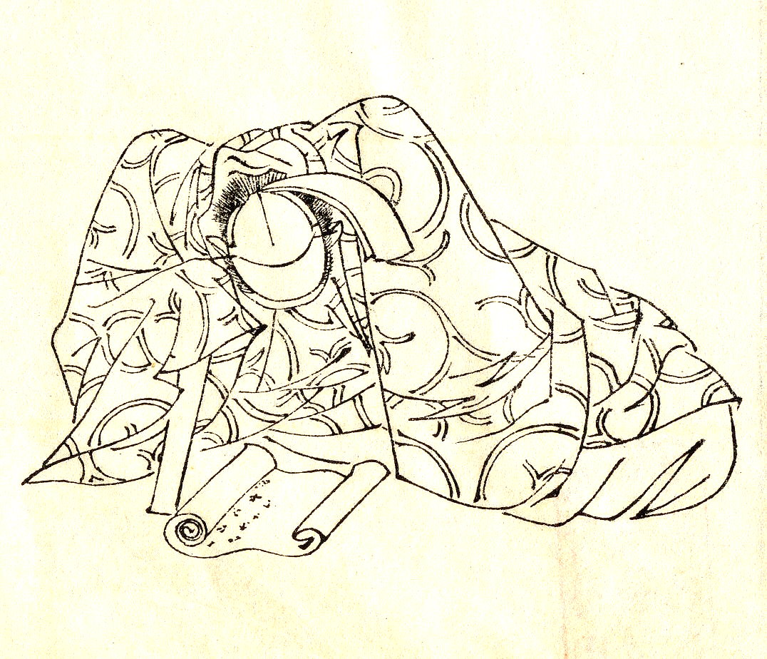 Yamada no Furutsugu(山田古嗣) was a Japanese government official and court noble in Heian Period.